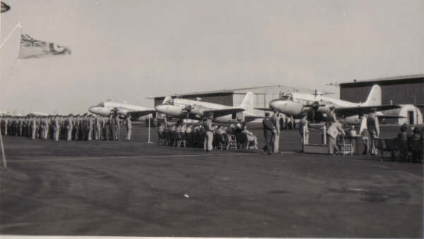 216 Squadron Leaving RAF Fayid for the UK 1956 ~ W N Mansfield Summary 216 Squadron Leaving RAF Fayid for the UK 1956 ~ W N Mansfield